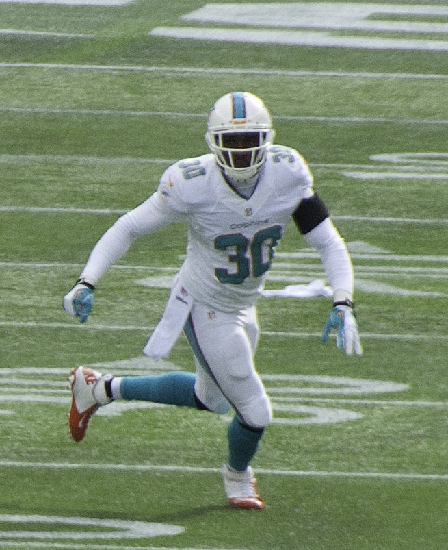 Miami Dolphins safety, Chris Clemons, playing against the New England Patriots.